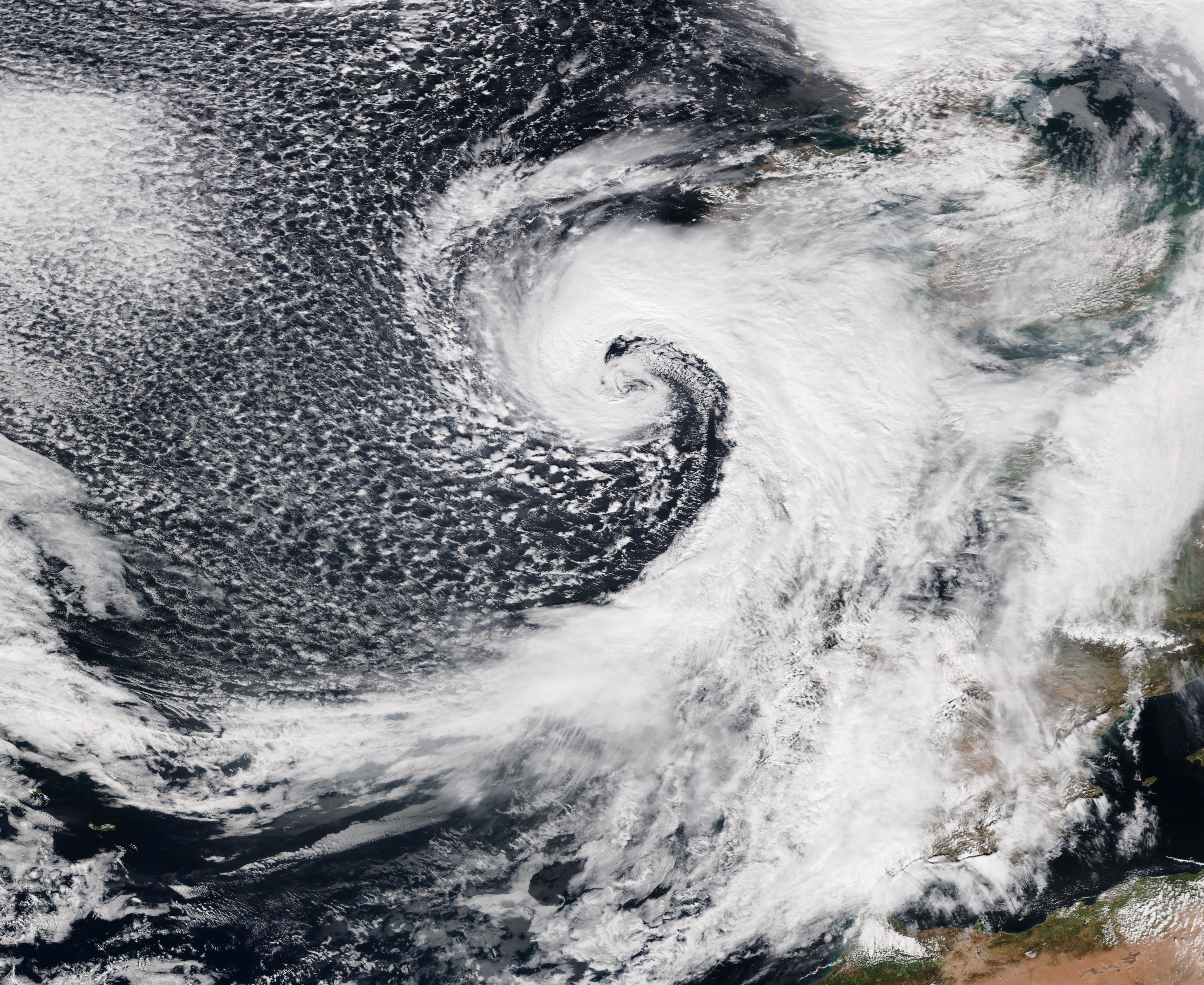 Storm Hugo of the 2017-18 European windstorm season approaching the British Isles on 23 March 2018.